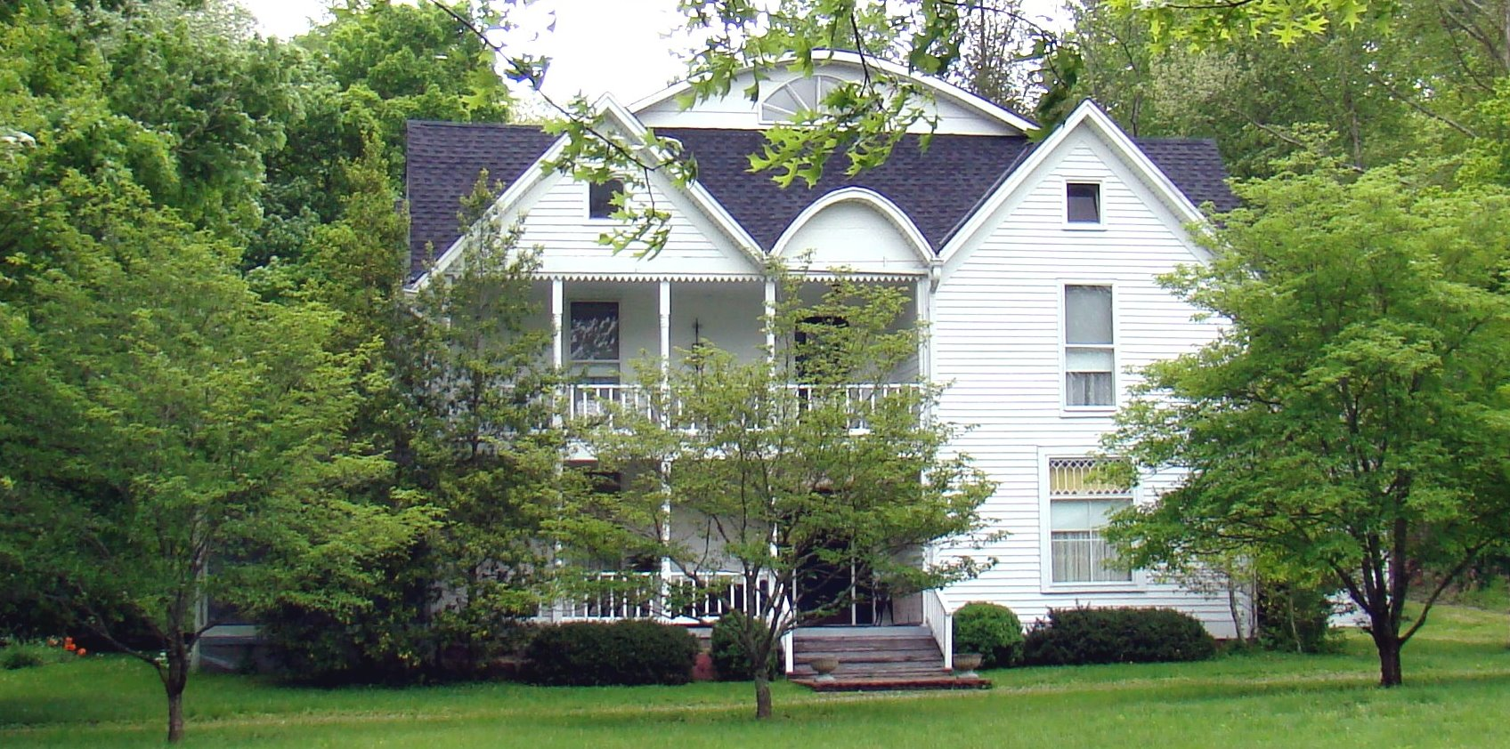 Caudel House, on Blythe Branch in Frenchburg, Kentucky, is a historic property that has served as a school, court house, apartment building, and private residence. The house was built by Thomas L. Caudel, a Menifee county judge and Kentucky state representative.